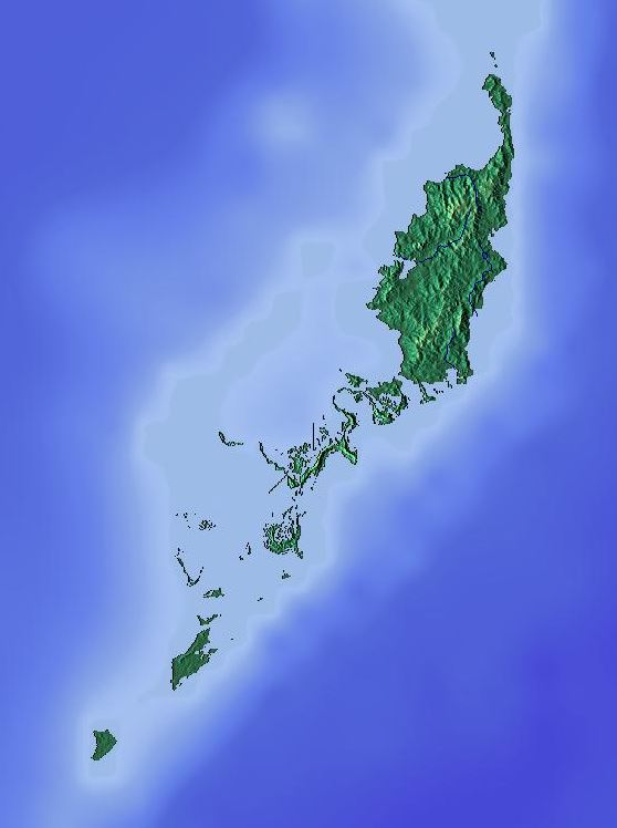 Relief from Palau Island Group